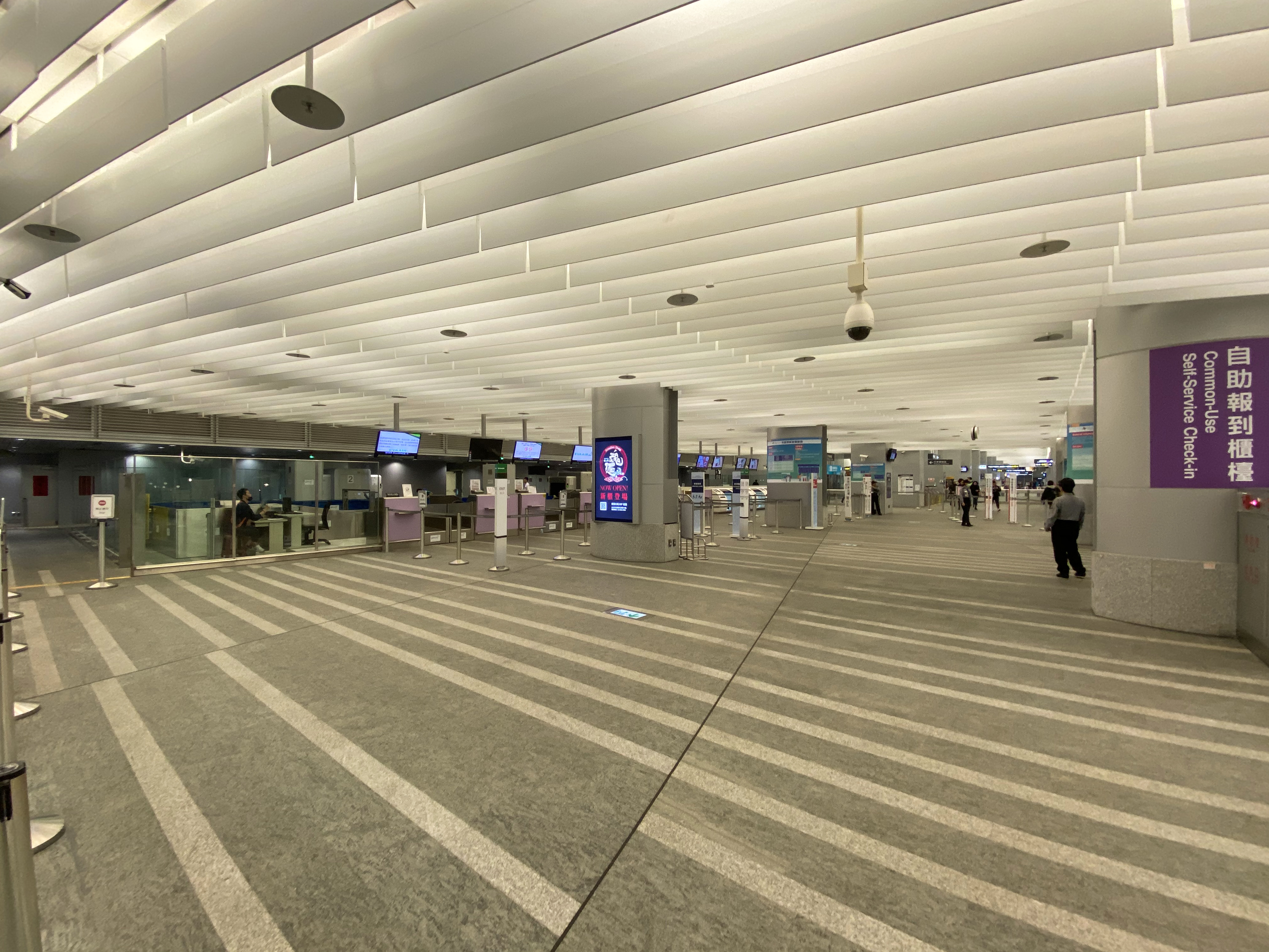 Taipei Main Station Taoyuan Metro Common Use Self Service Check in